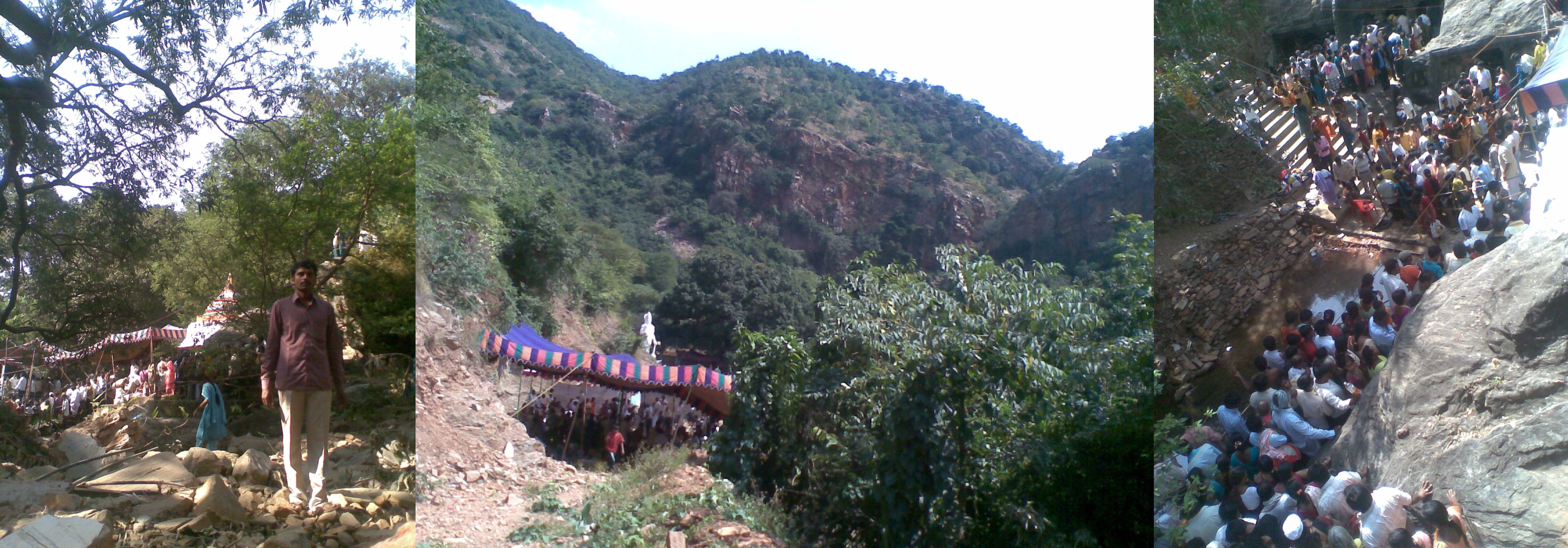 Bhairava Kona,Nellore, Prakasam border, Andhra Pradesh